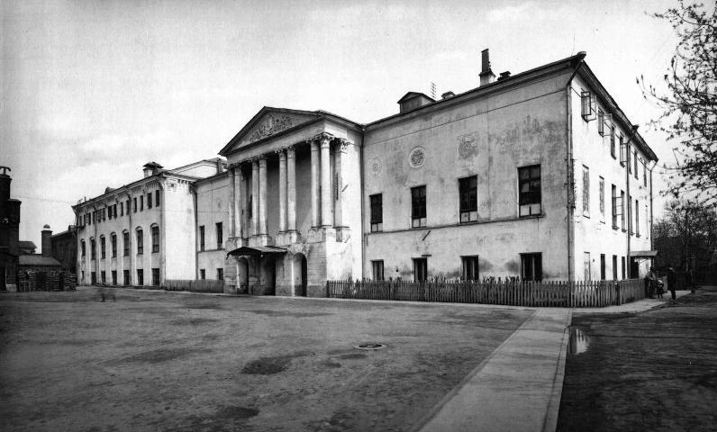 Rukavishnikov Shelter in Moscow, Russia